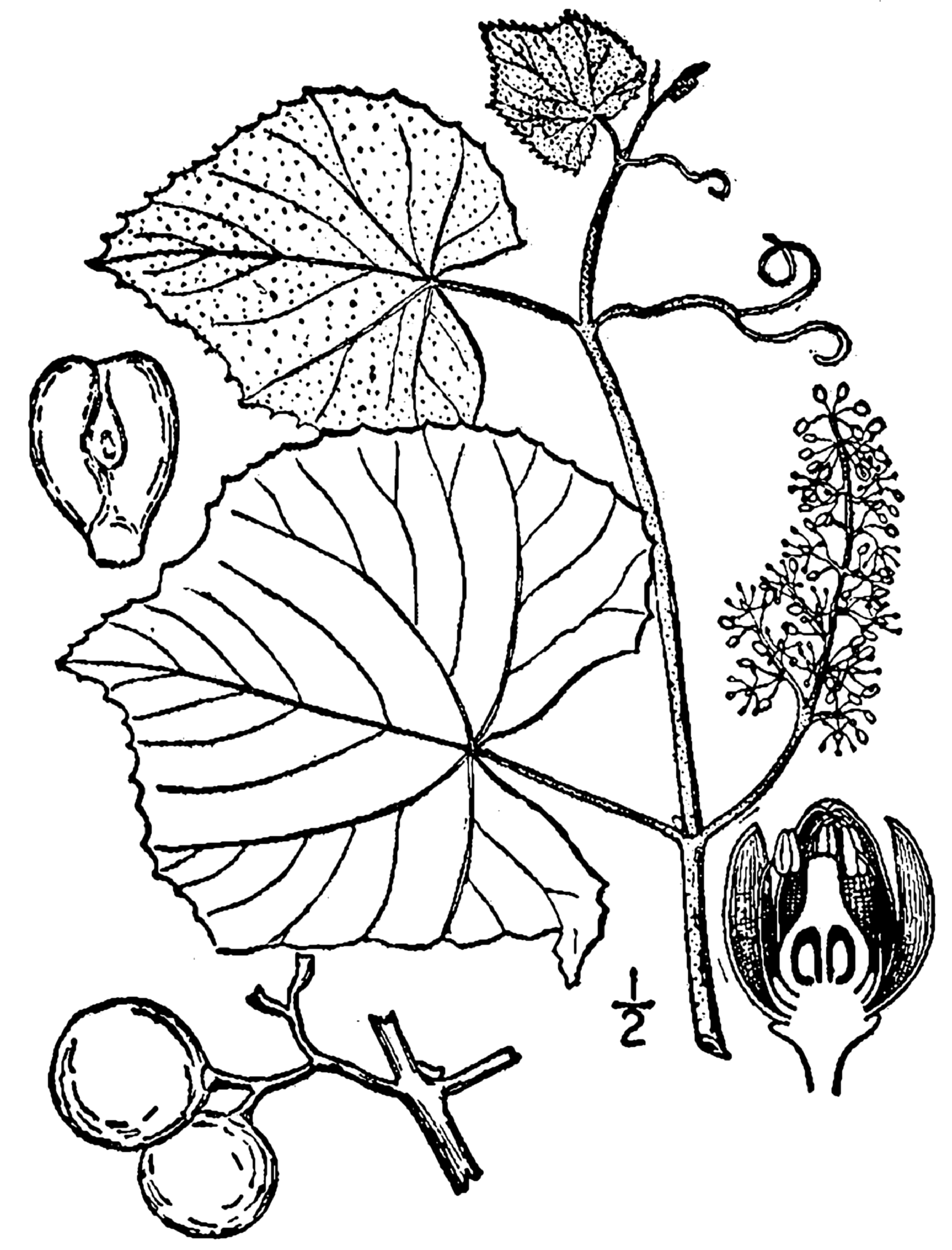 Drawing of Vitis labrusca L. - fox grape